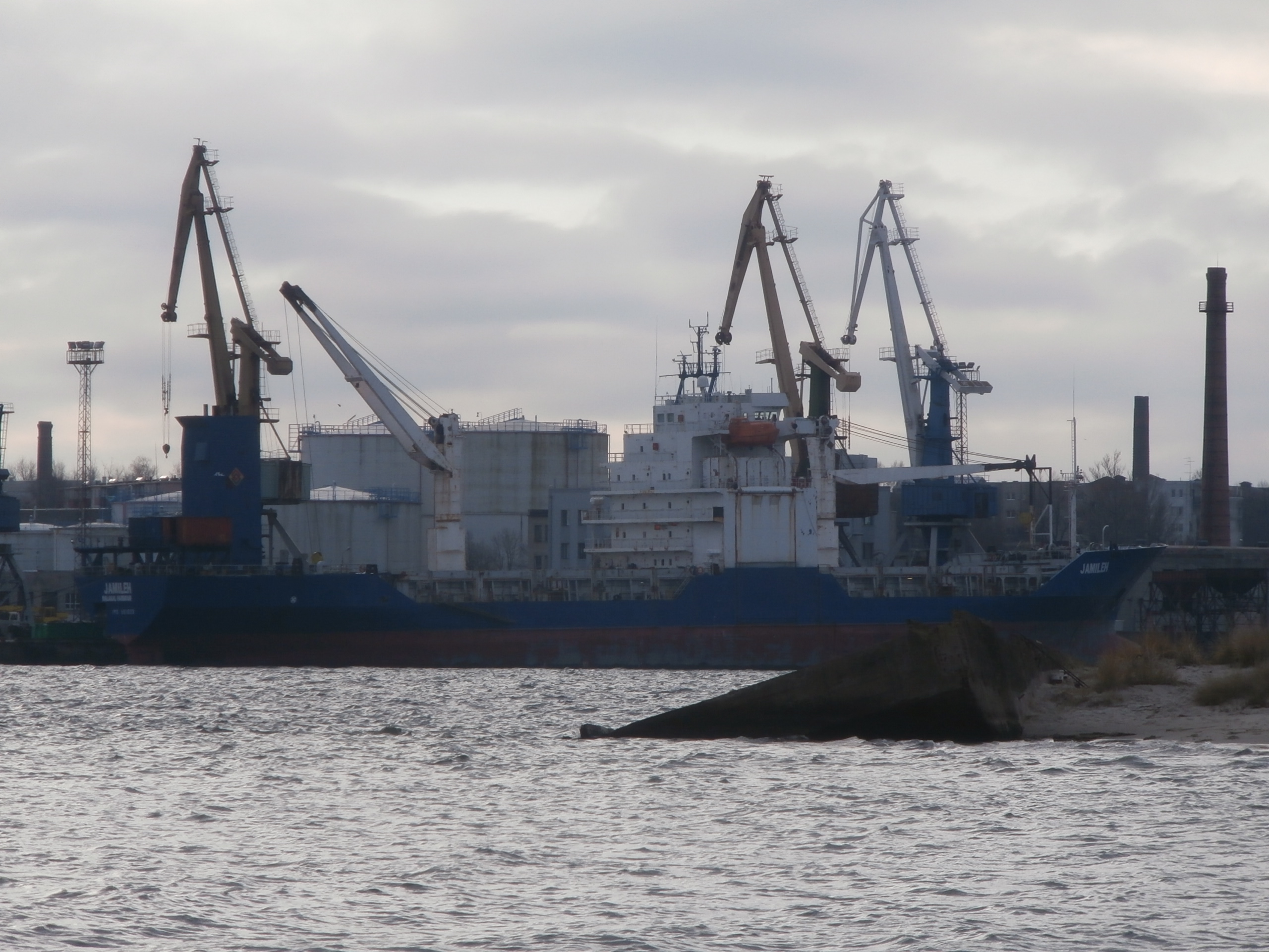 Jamileh at Quay 32 in Paljassaare sadam Tallinn